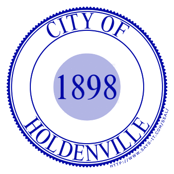 This is my own replication of the Holdenville city seal. It is not exact, but it's pretty close.